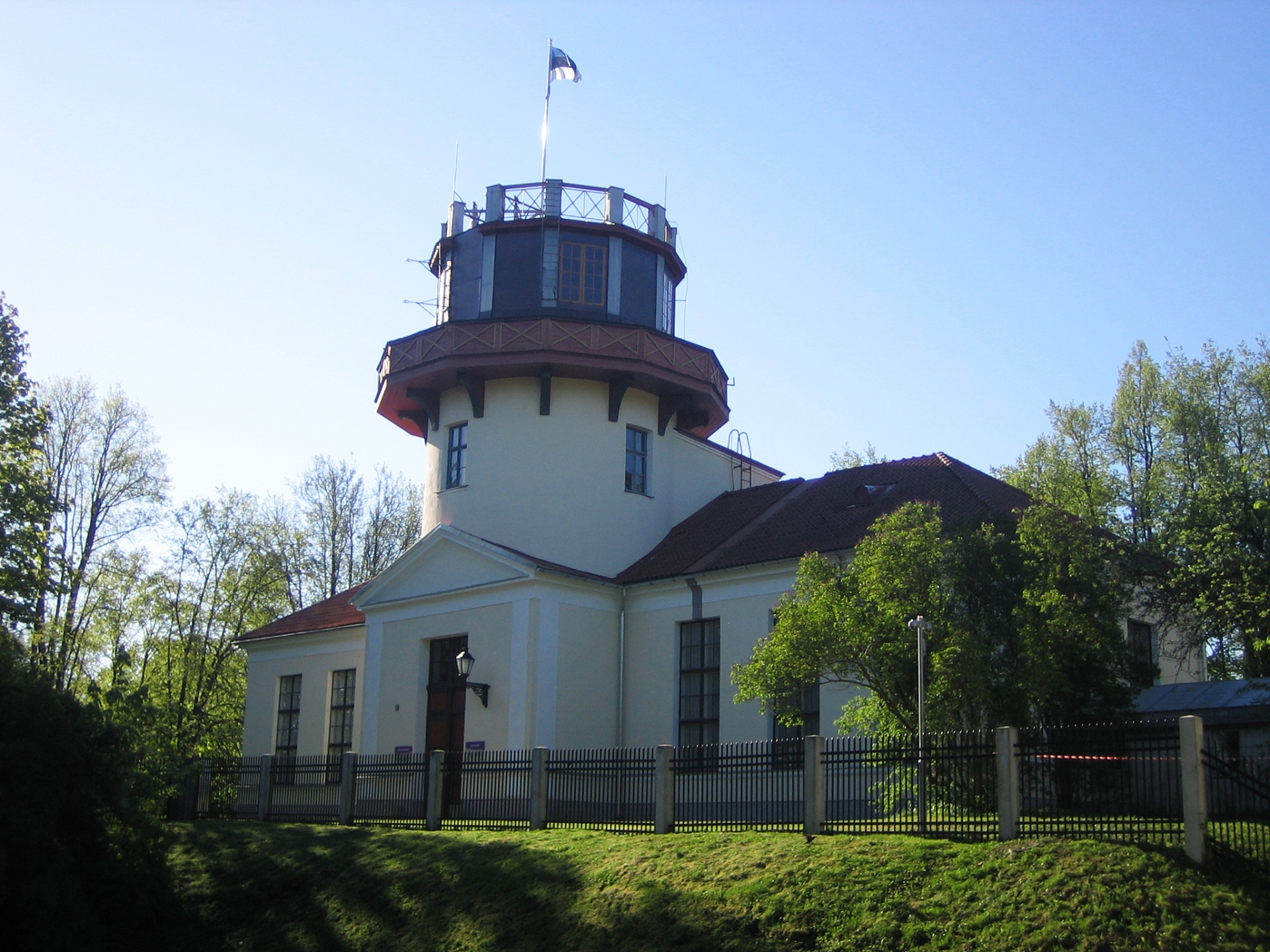 Tartu tähetorn mais 2014